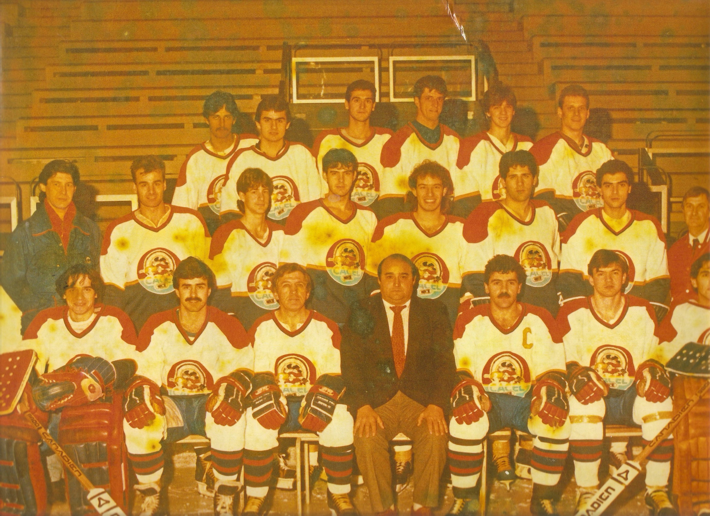 frenchs vice champions Ice Hockey N1 1986